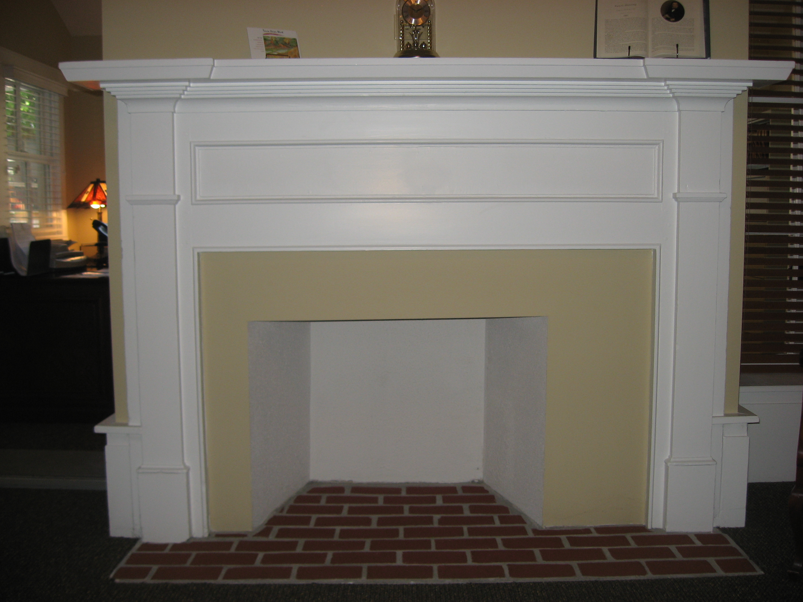 Fireplace inside the Blair-Dunning House, located at 608 W. Third Street in Bloomington, Indiana, United States. Built in 1822 and later the home of Paris C. Dunning, it is listed on the National Register of Historic Places.